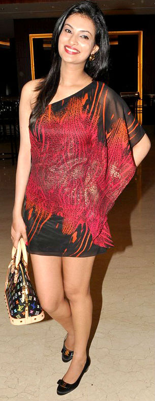 Sayali bhagat tukka fit